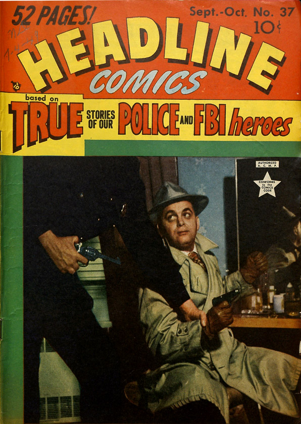 Cover of the comic book Headline Comics v5 37,Sep-Oct 1949